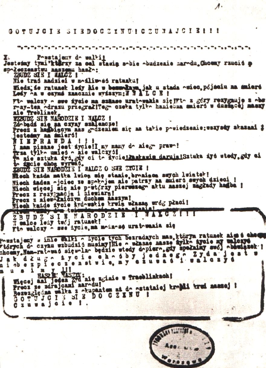 Proclamation of the Jewish Military Union